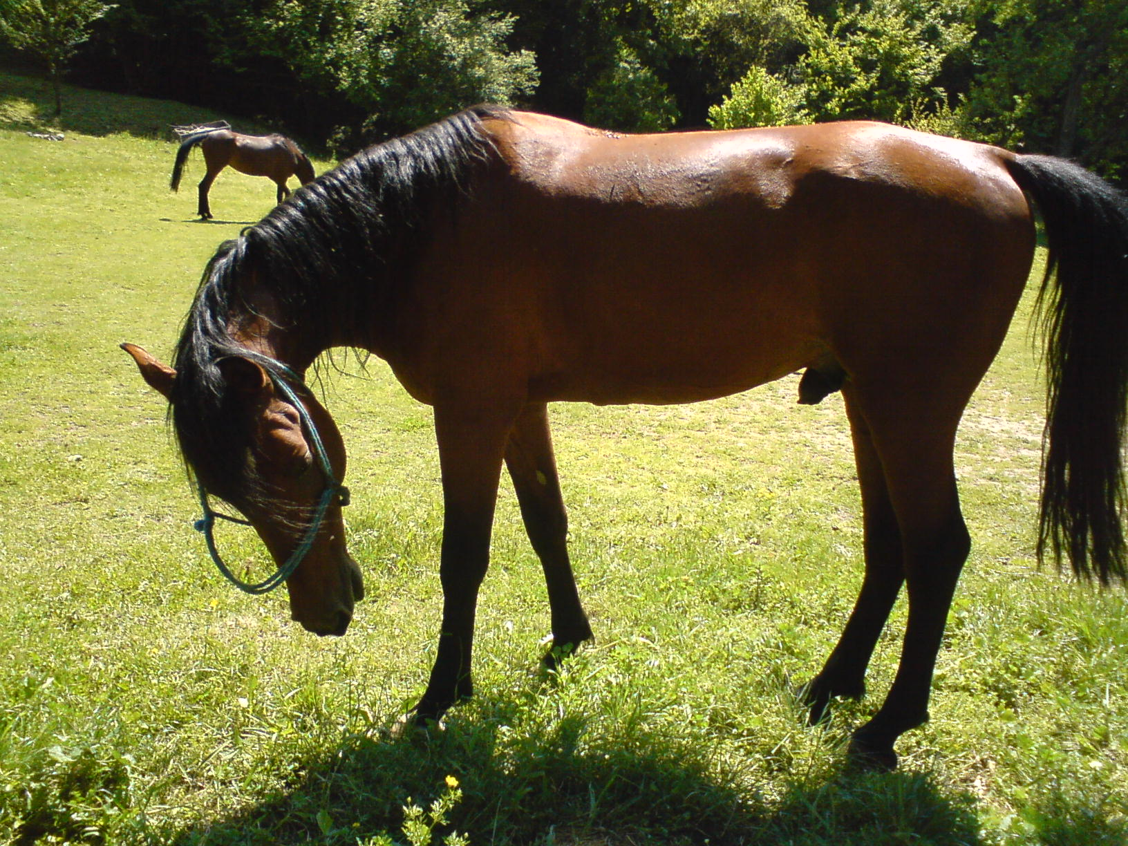 Stallion on the pasture